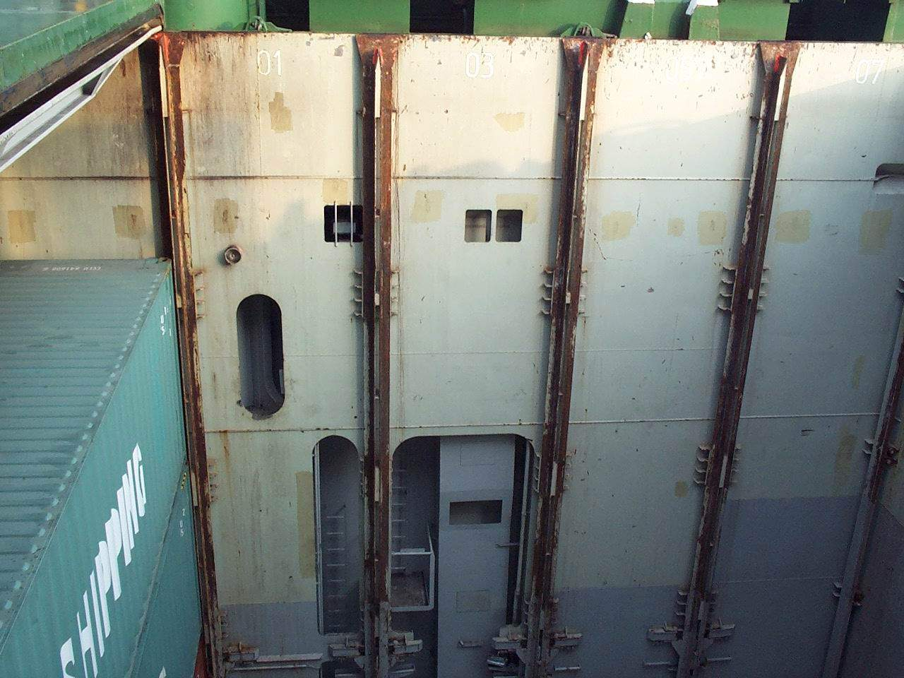 View inside a container vessels hold